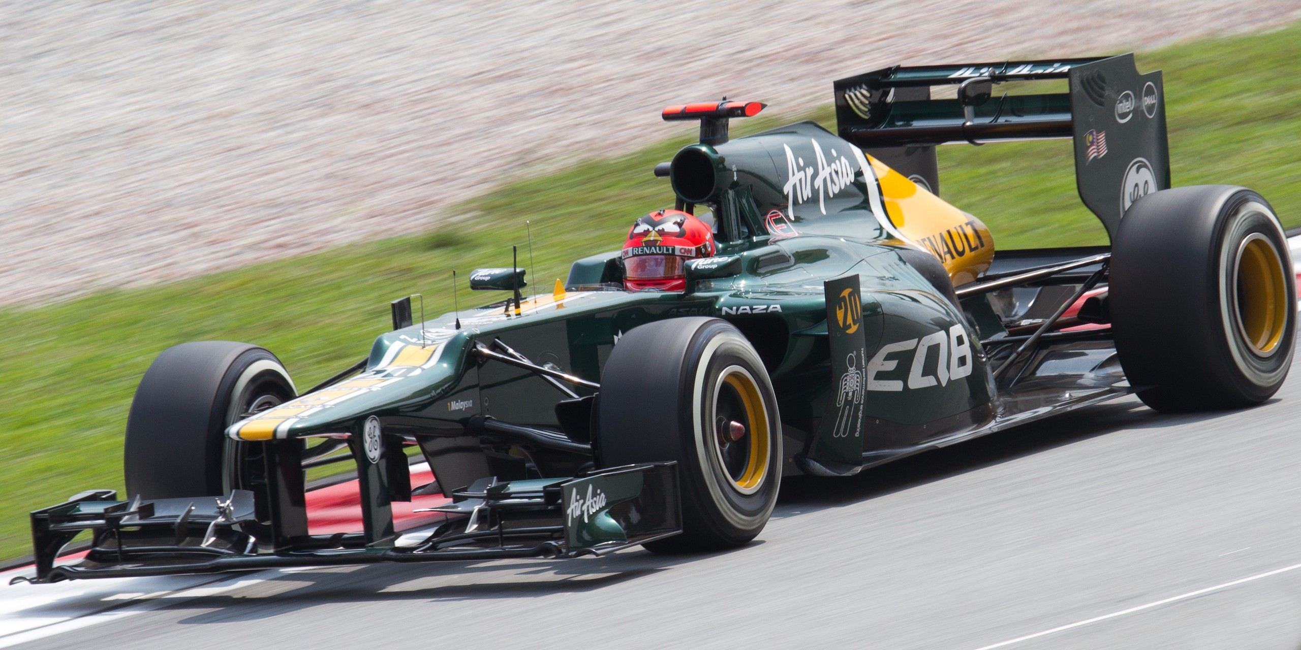 Formula One 2012 Rd.2 Malaysian GP: Heikki Kovalainen (Caterham) during the first practice session on Friday.